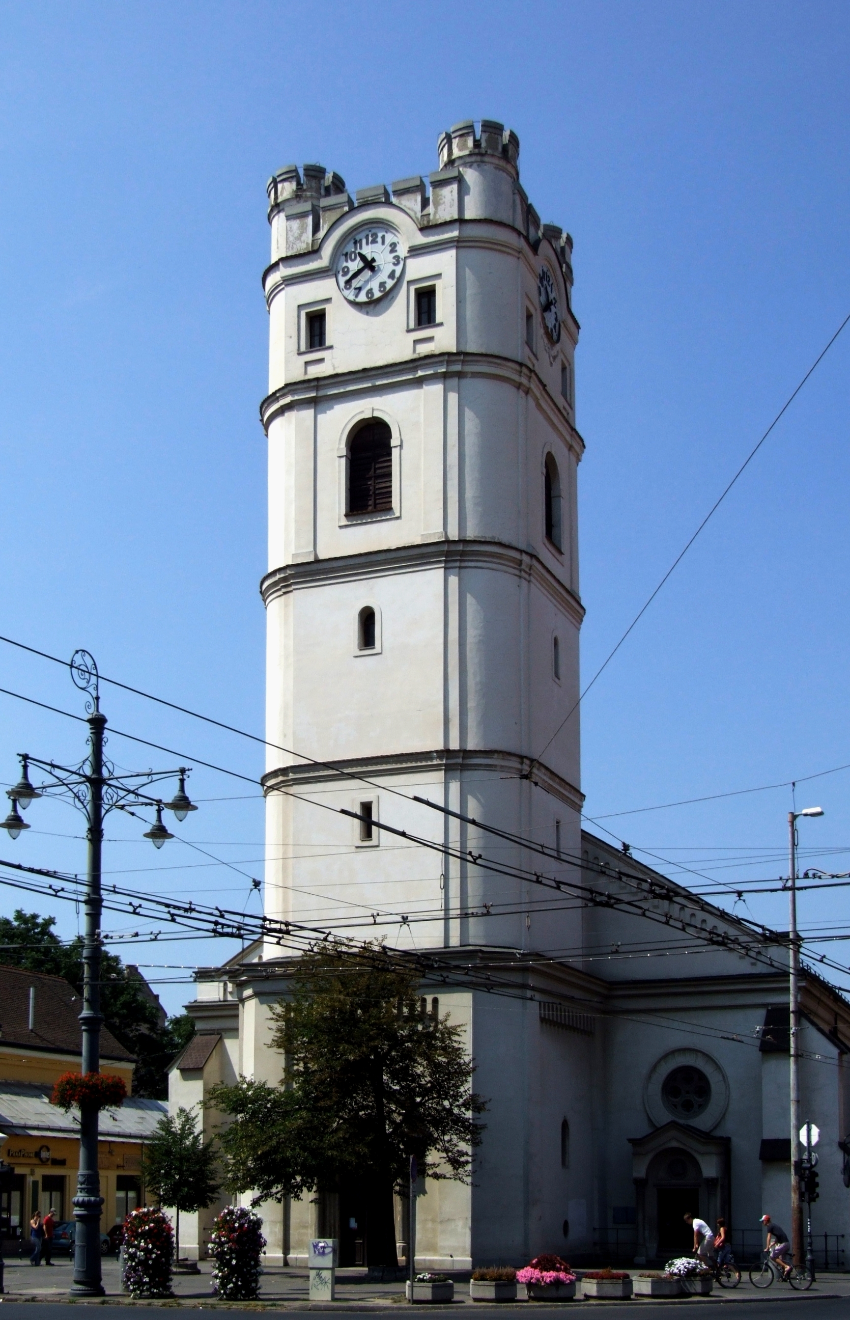 Debrecen, Kossuth street - Small Protestant Church (Csonka templom)